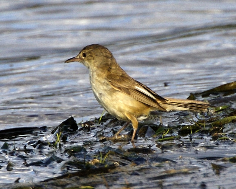 Australian Reed-Warbler (Acrocephalus australis) Nominate race: Acrocephalus australis australis Lake Wallace, Blue Mountains, NSW, Australia 10th. February 2008 690V2136